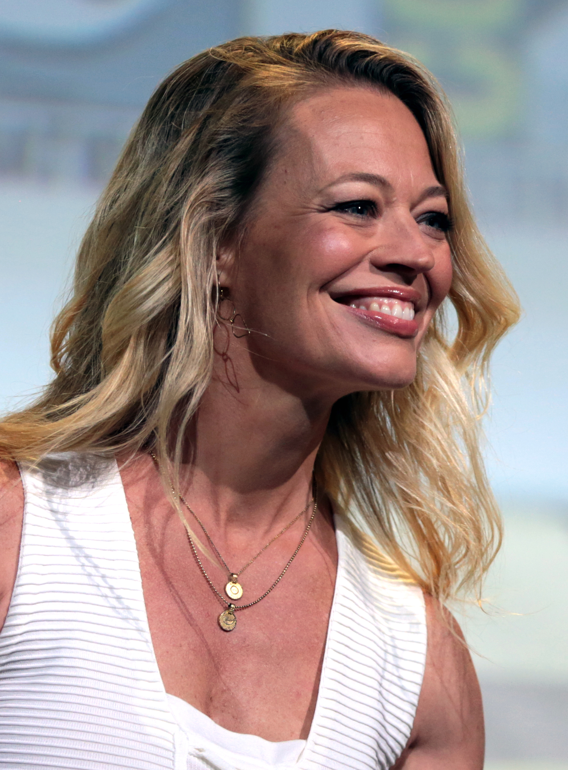 Jeri Ryan speaking at the 2016 San Diego Comic-Con International in San Diego, California.